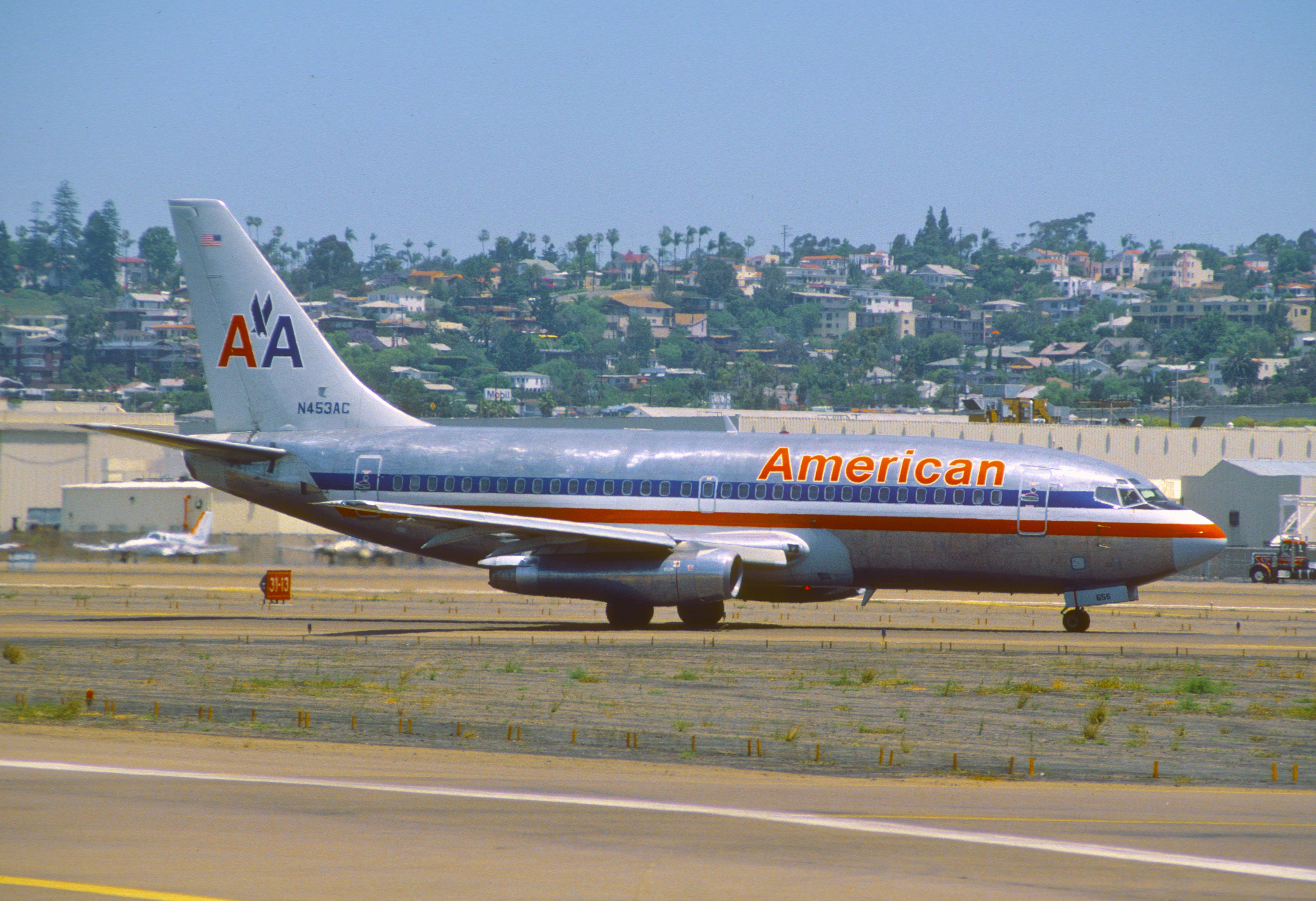 This Boeing 737-219 was originally delivered to New Zealand Air (predecessor to Air New Zealand) in October 1968... c/n 19931/ 77 was scrapped some time around 1997/98 at Roswell...